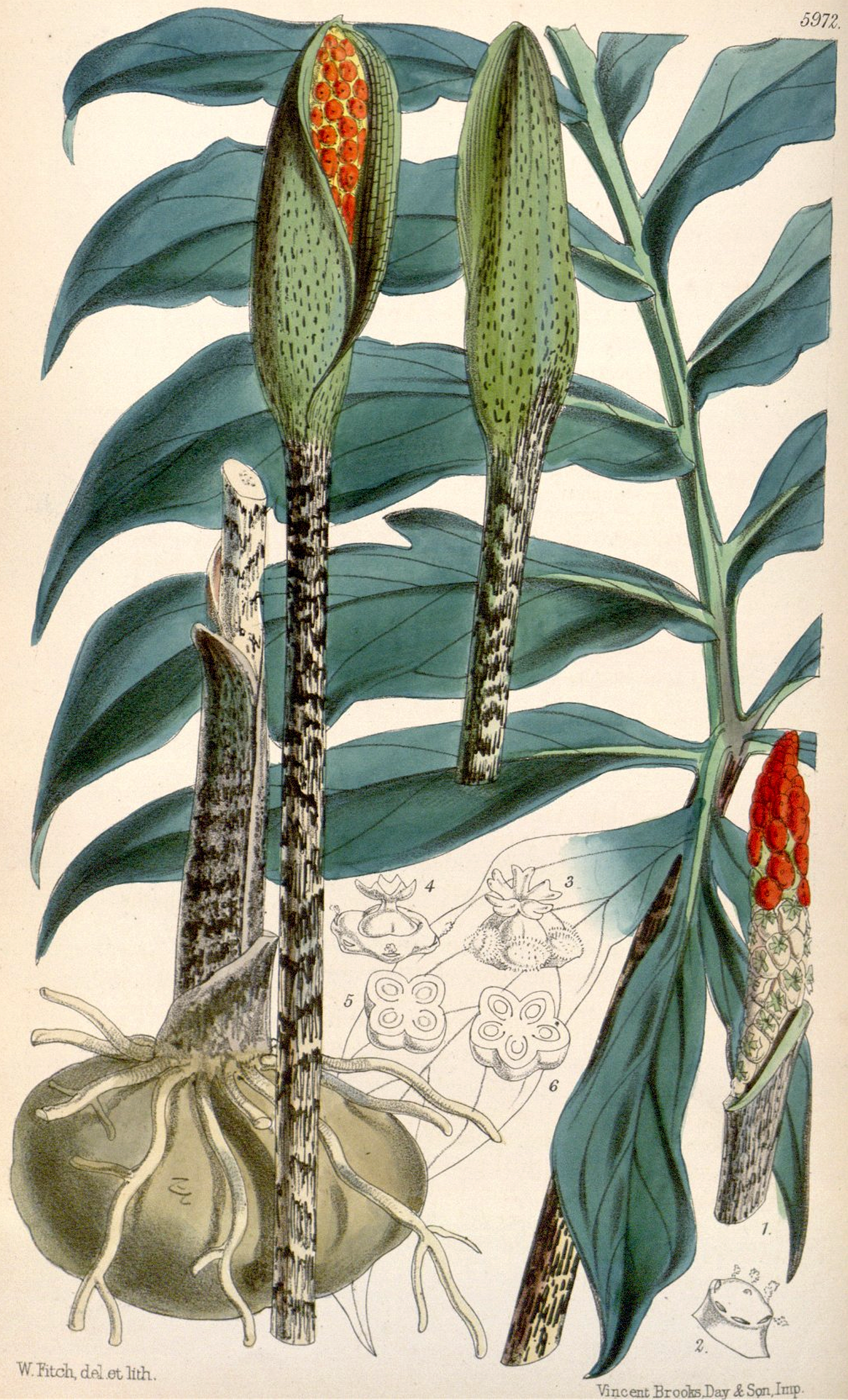 Asterostigma luschnathianum botanical drawing